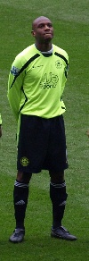 Emmerson Boyce lining up for Wigan Athletic against Chelsea.